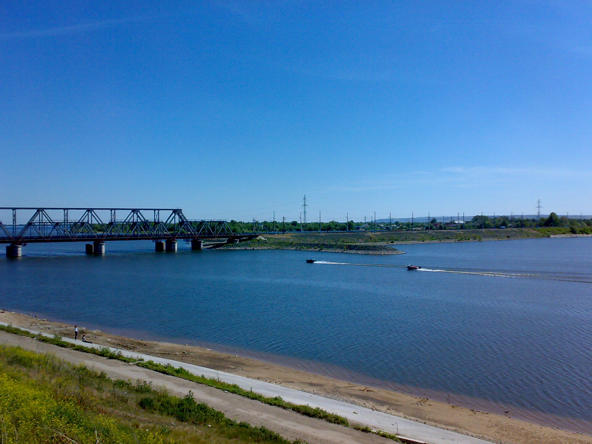 Syzranka river near its confluence with the Volga river